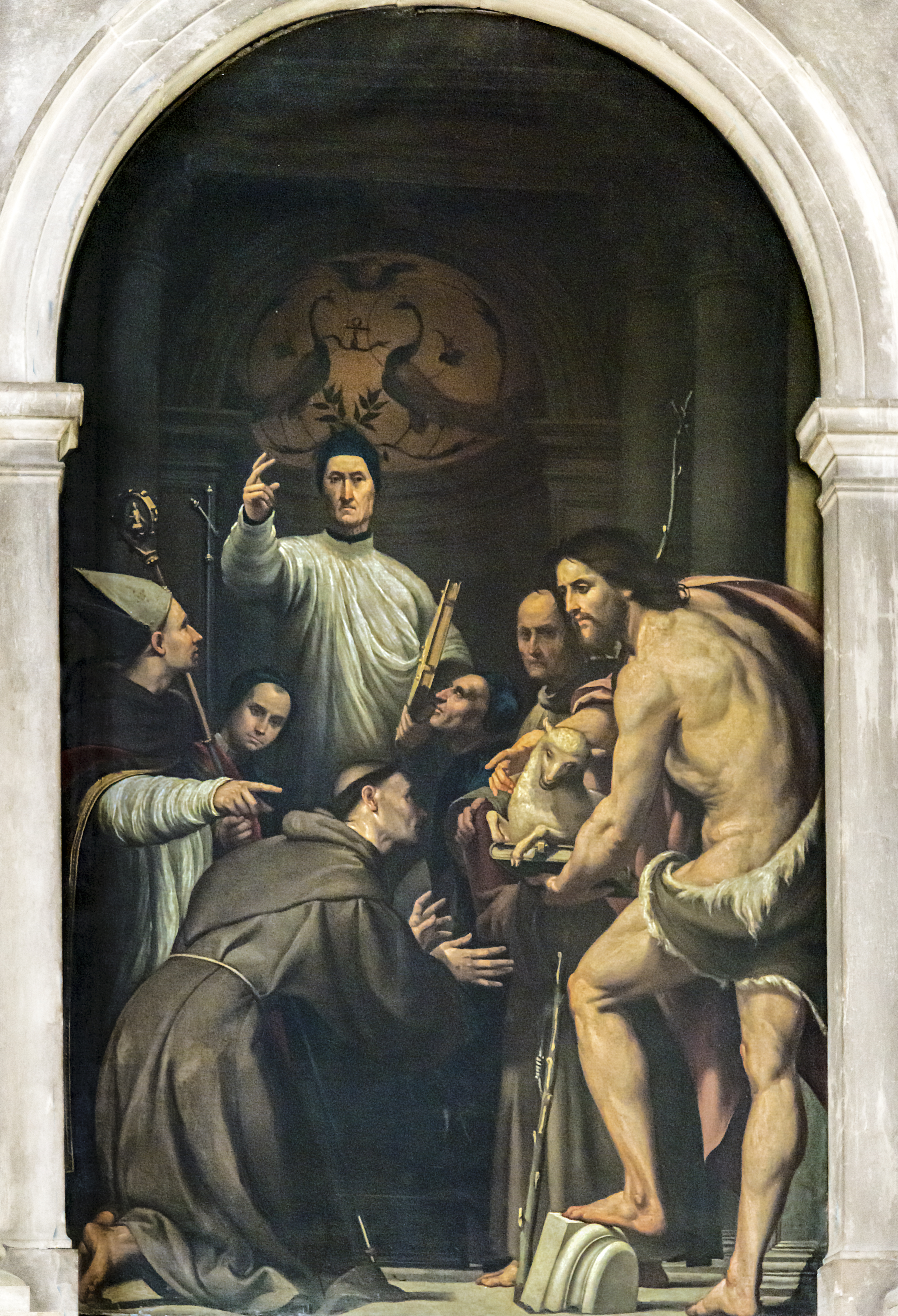 St Laurent Giustiniani blessing; In the foreground from left to right: St. Louis of Toulouse, St. Francis of Assisi, and St. John the Baptist.